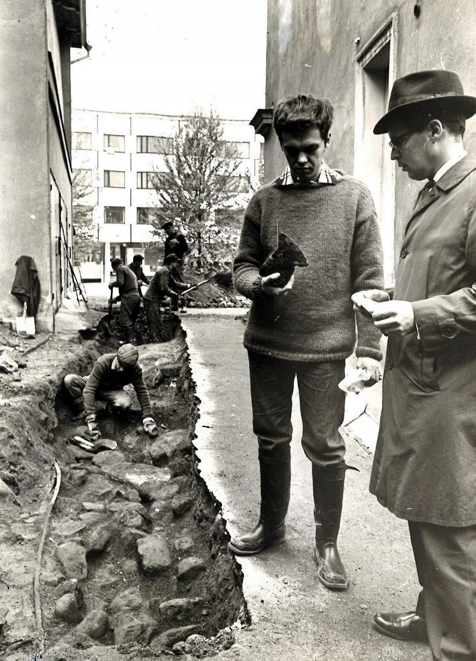 Excavation at Julin estate in Turku 1964